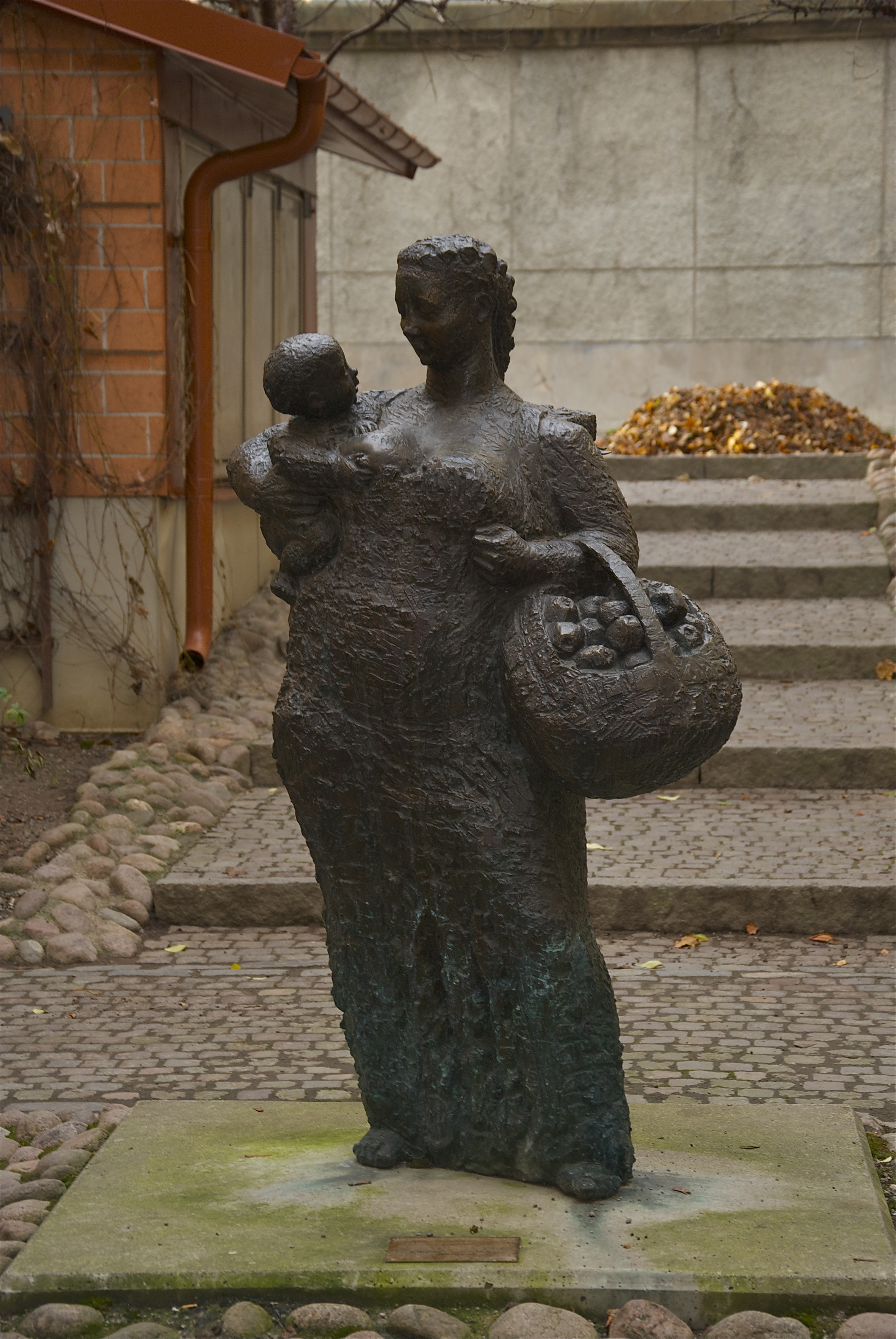 Torggumman, sculpture in bronze. Artist Lena Lervik.